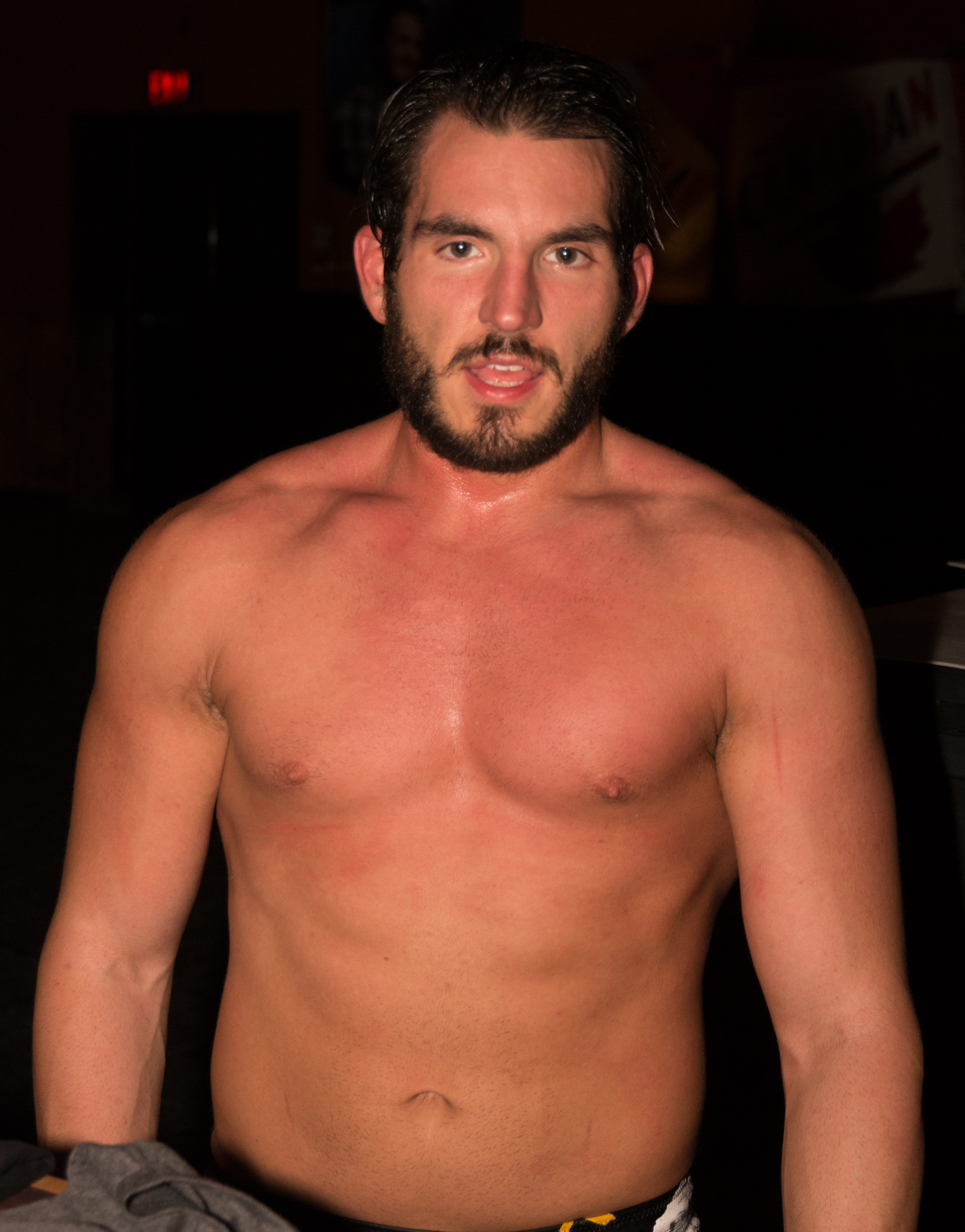 Independent wrestler Johnny Gargano at a Smash Wrestling show in London, ON